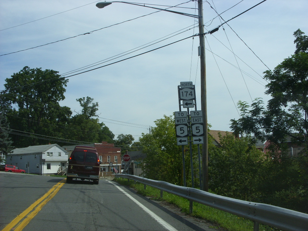 NY 174 at old NT 5 in Camillus. This was formerly the northern terminus of NY 174 & NY 321.